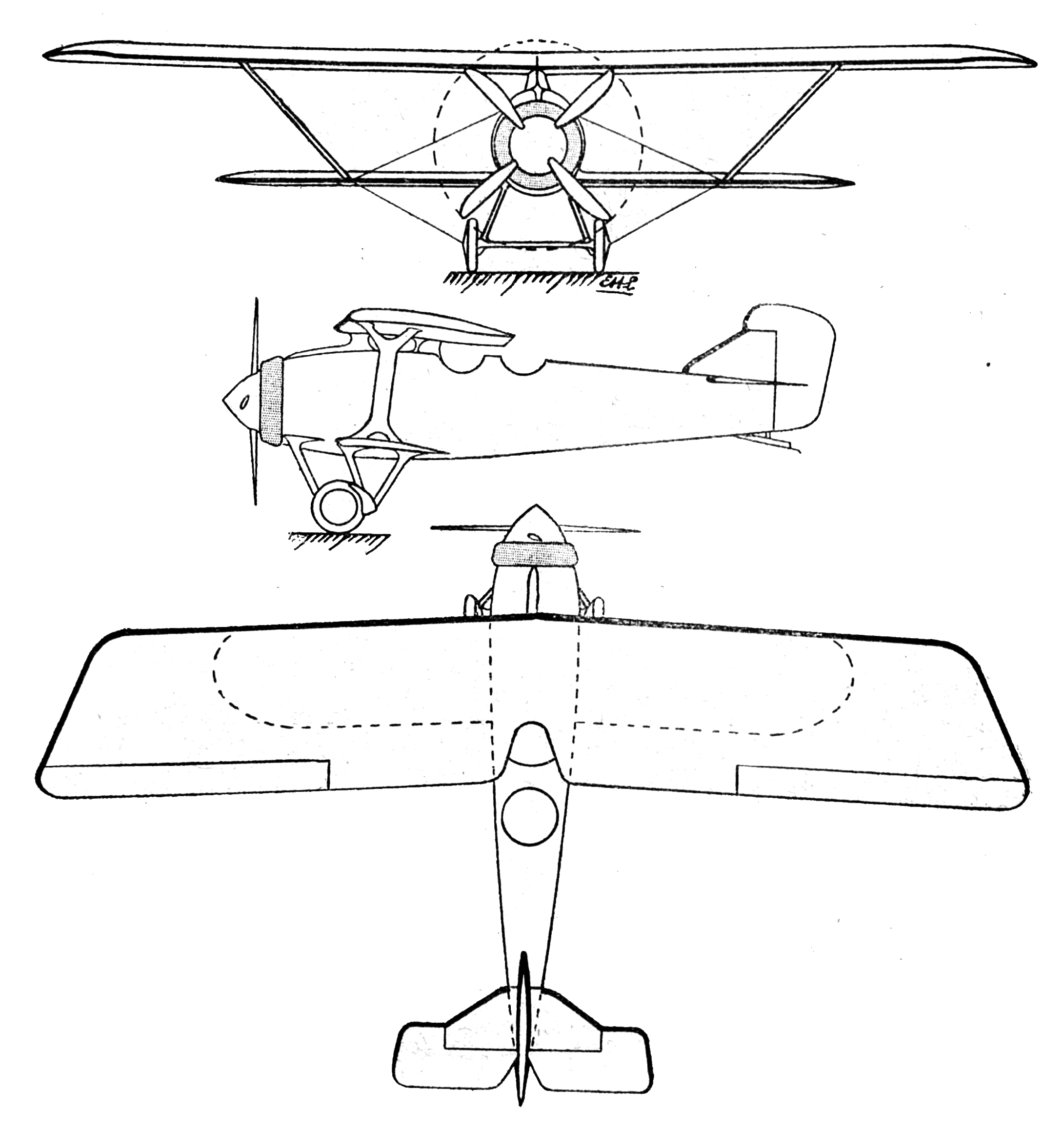 Breguet 19 A2 3-view drawing from Les Ailes January 26,1922